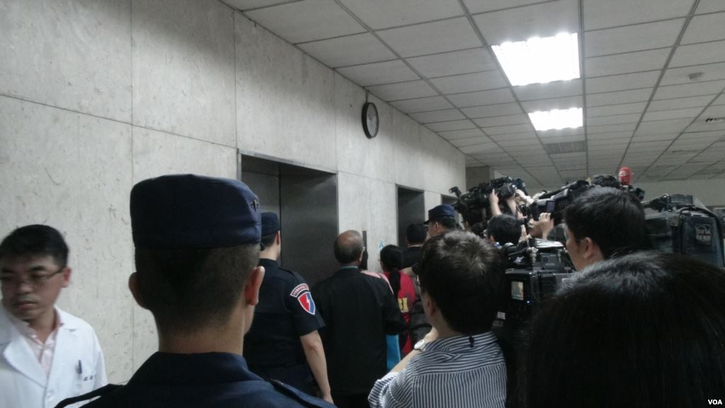 Guang Da Xing No. 28 incident Philippine investigation group come to Criminal Investigation Bureau